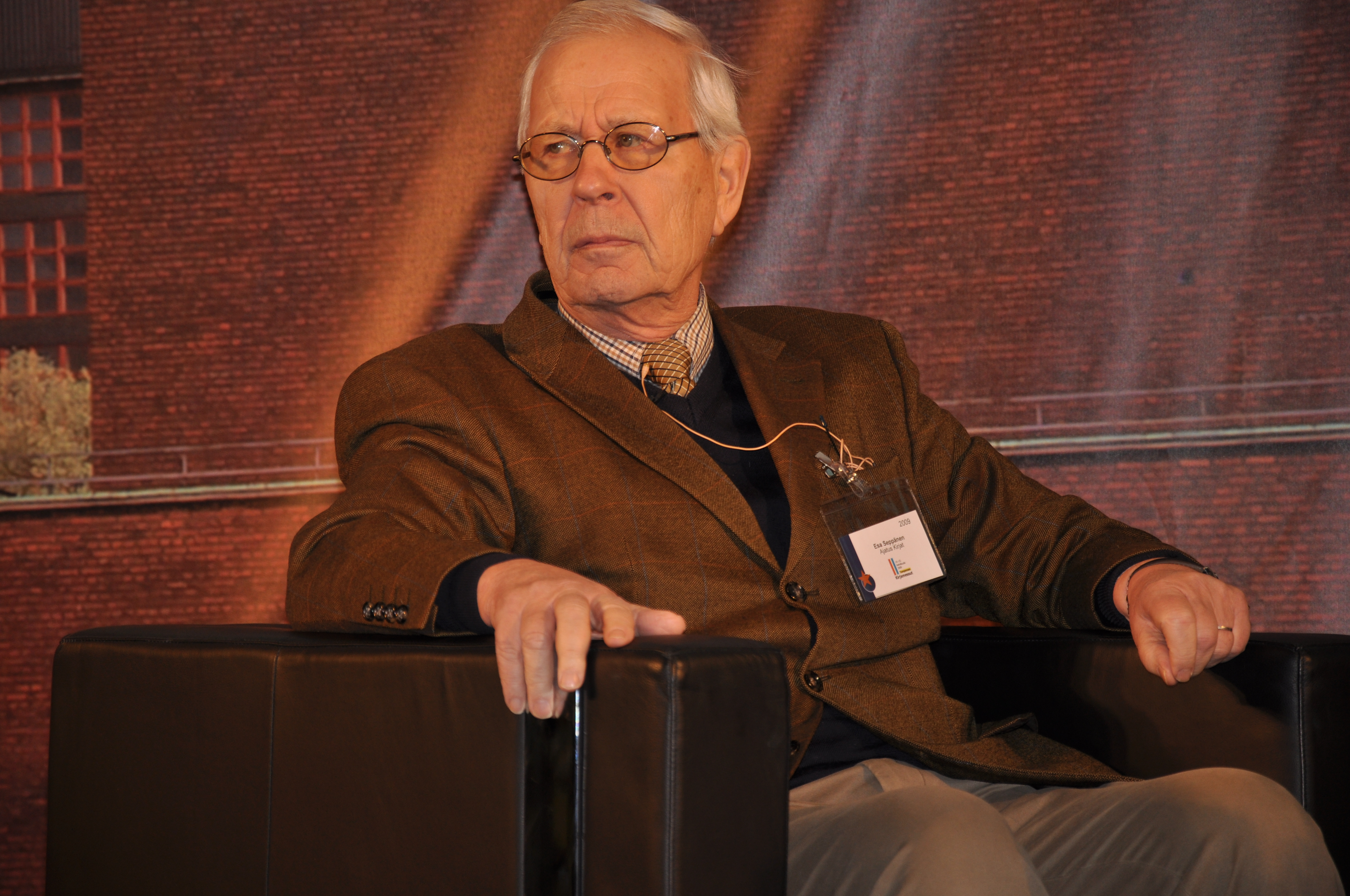 Finnish non-fiction writer Esa Seppänen at the Tampere Book Fair 2009.